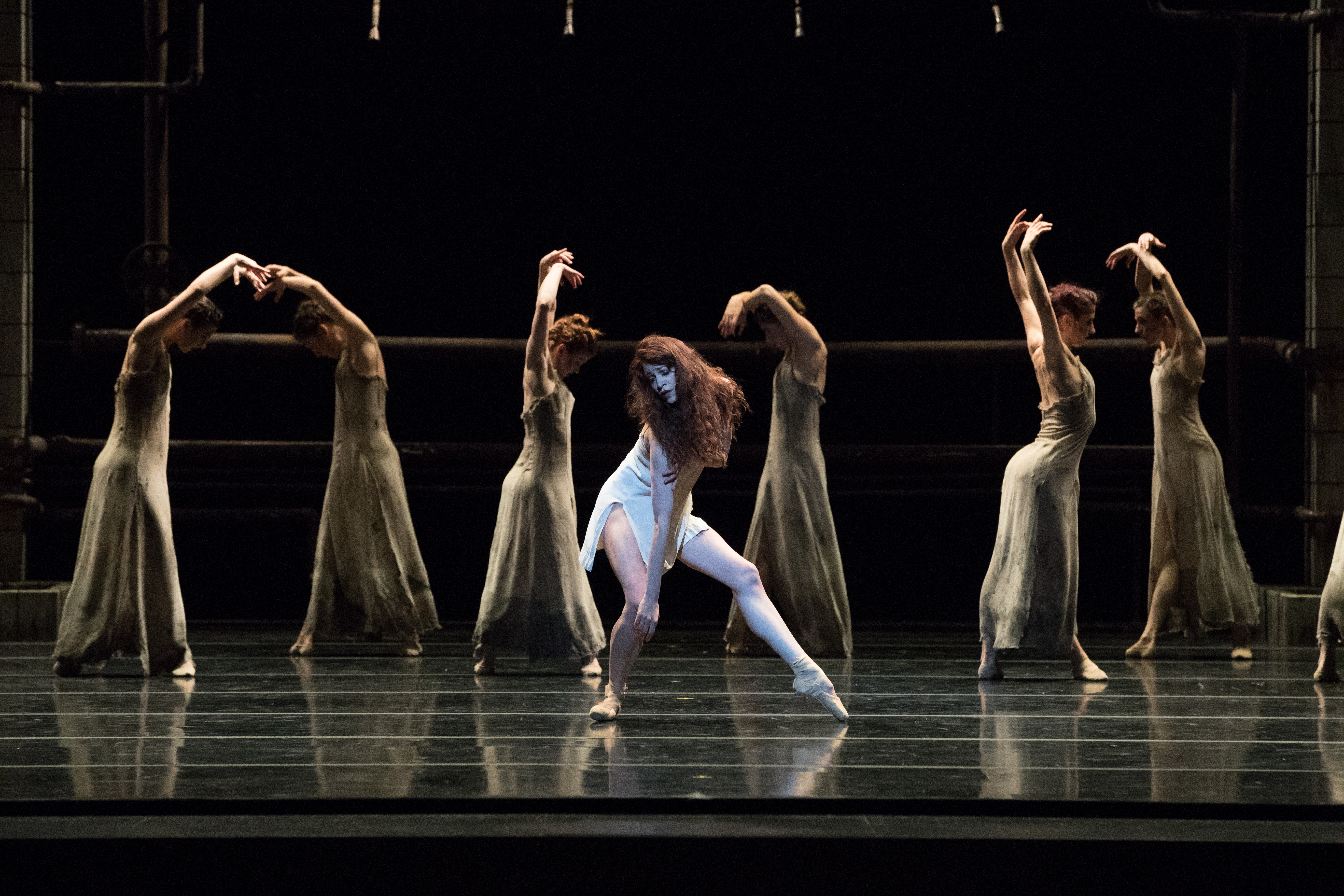 "Rite of Spring" Choreography by Adam Hougland. Dancer Angelina Sansone. Photographer Brett Pruitt & East Market Studios.